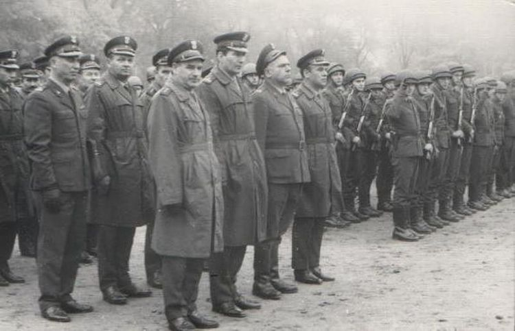 Stargard, 1981r. Kadra sztabu 9pz podczas uroczystości wojskowej